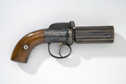 Note: For documentary purposes the original description has been retained. Factual corrections and alternative descriptions are encouraged separately from the original description.revolver, pepperbox - LRK 4779 Nyckelord: Revolver, Pepperbox, Föremålsbild